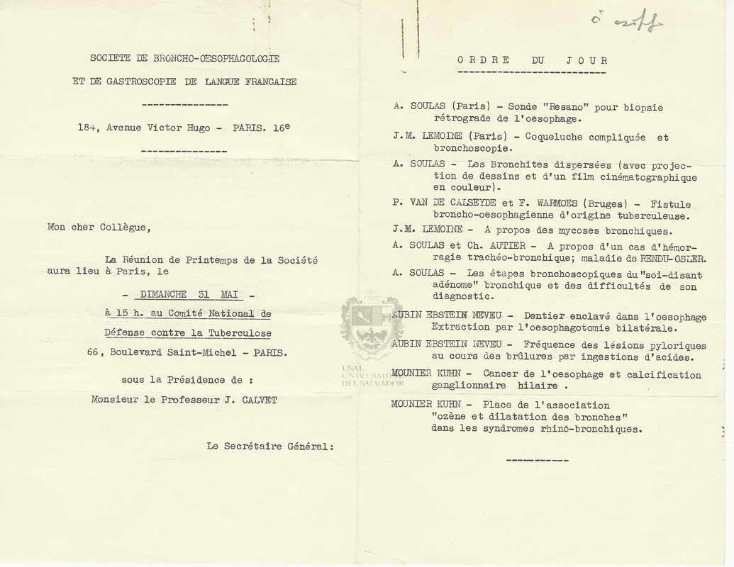 Program of the 50th Conference of the French Society of Bronco-Esofagology. Image by the Biblioteca y Archivo Históricos de la Universidad del Salvador.